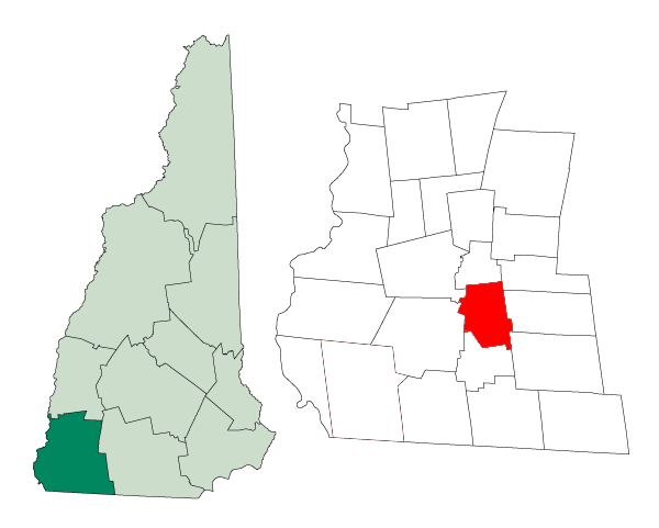 Map of a municipality in Cheshire County, New Hampshire